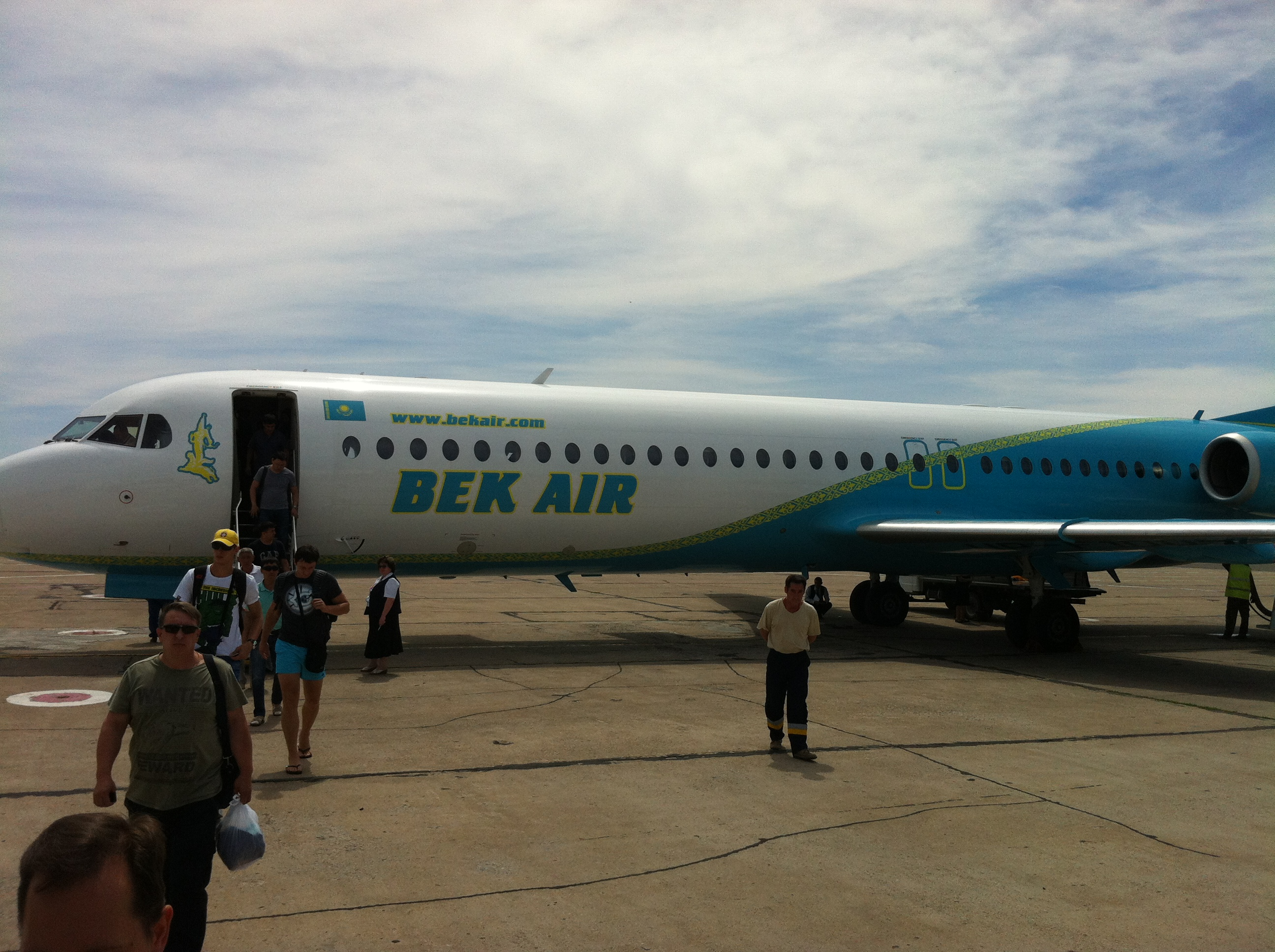 Aircraft of the Kazakh airlines Bek Air